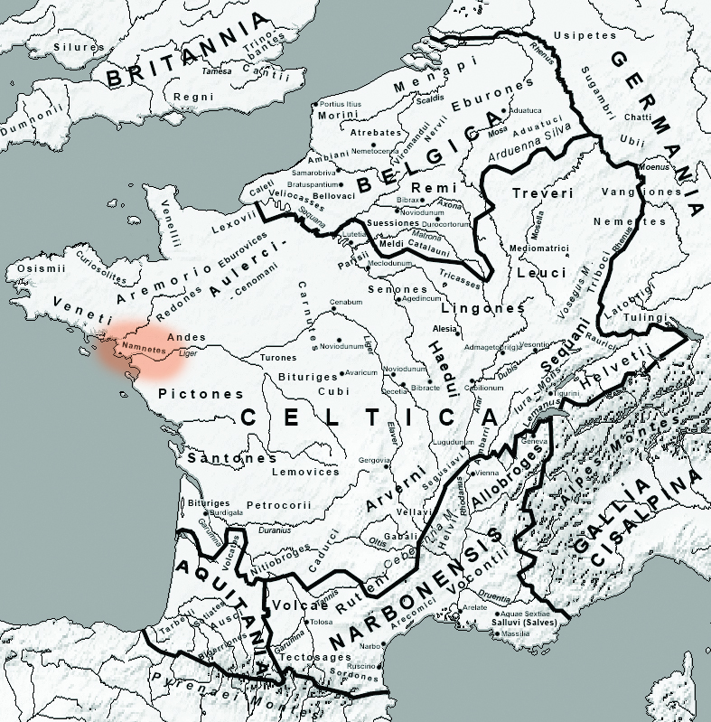 source: own work